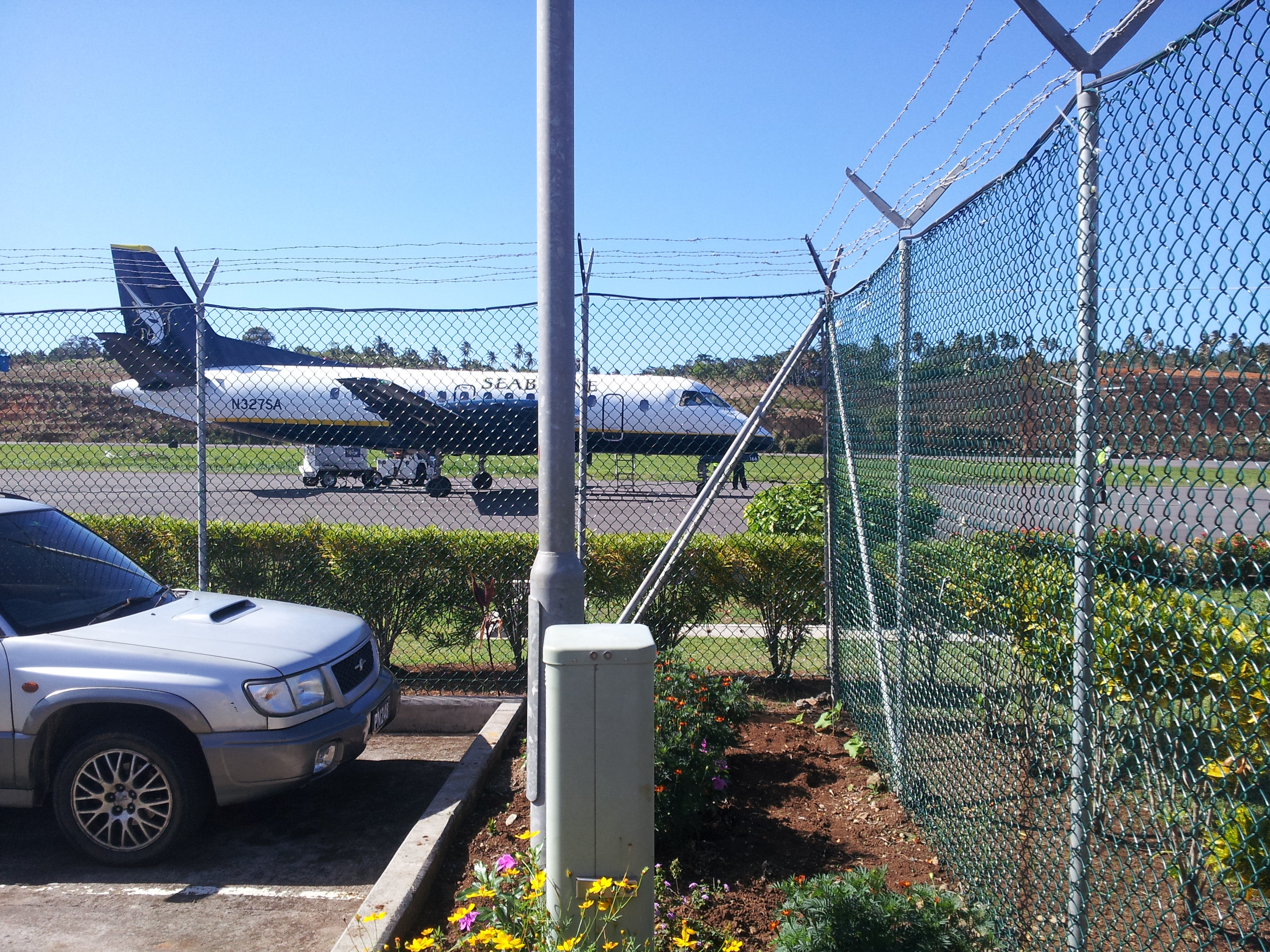 Seaborne Airlines doing test flights before they replace American Airlines on April 1st 2013.